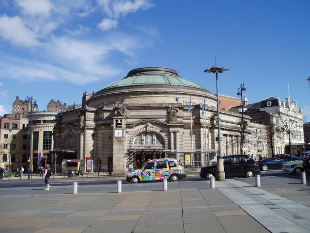 The Usher Hall, Edinburgh. This Hall, which is Edinburgh's principal Concert Venue, was opened in 1914 and can hold approximately 2900 people in its recently restored auditorium, which is well loved by performers due to its acoustics. The Hall is flanked on both sides by theatres. On the right the white building is The Royal Lyceum Theatre, which was completed in 1883, and the cylindrical building to the left is the entrance to The Traverse Theatre, which was completed in 1992, and above which a view of Edinburgh Castle can be seen.